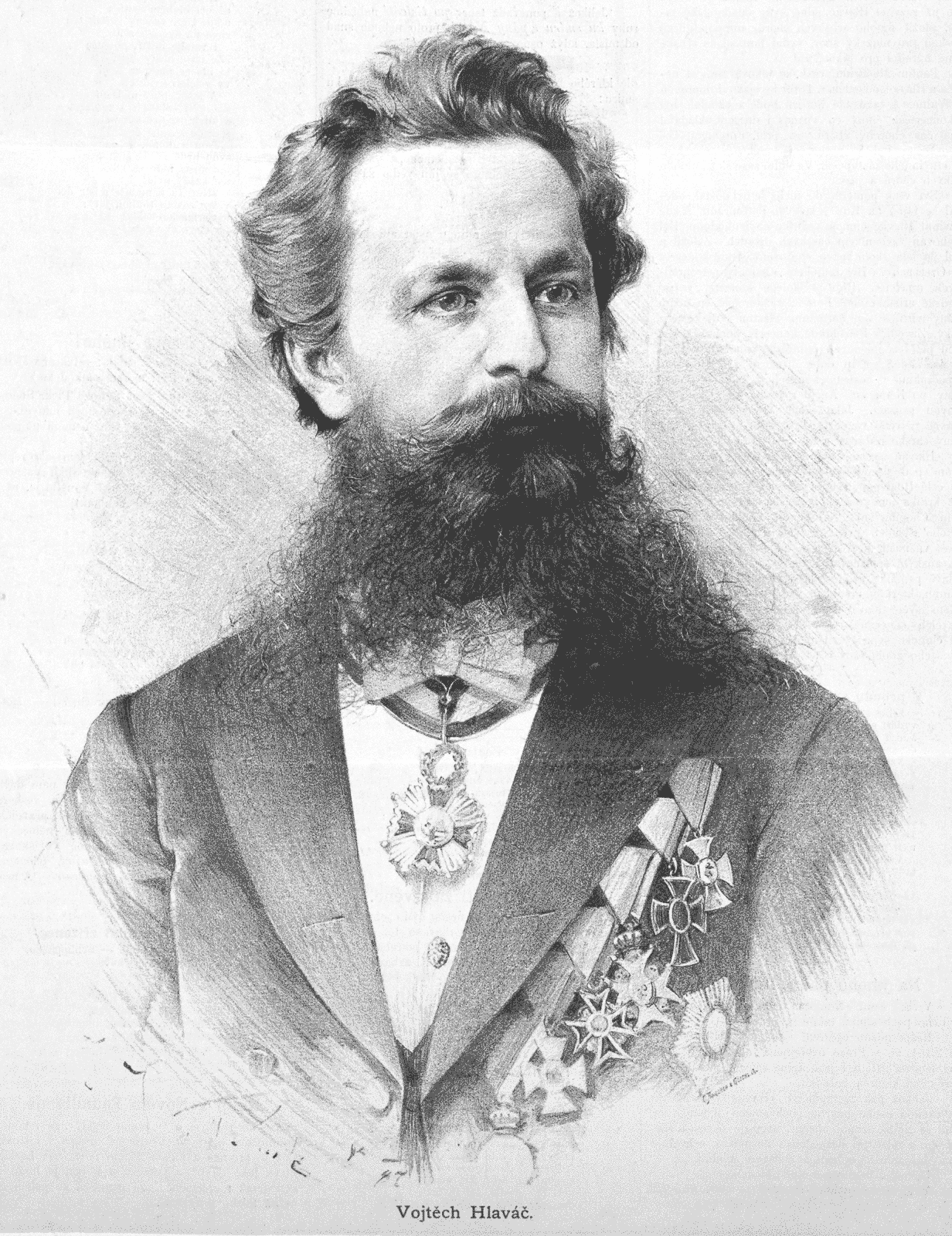 Portrait of Vojtěch Hlaváč (1849-1911), Czech musician - organist, conductor, composer and inventor, active mainly in Russia.